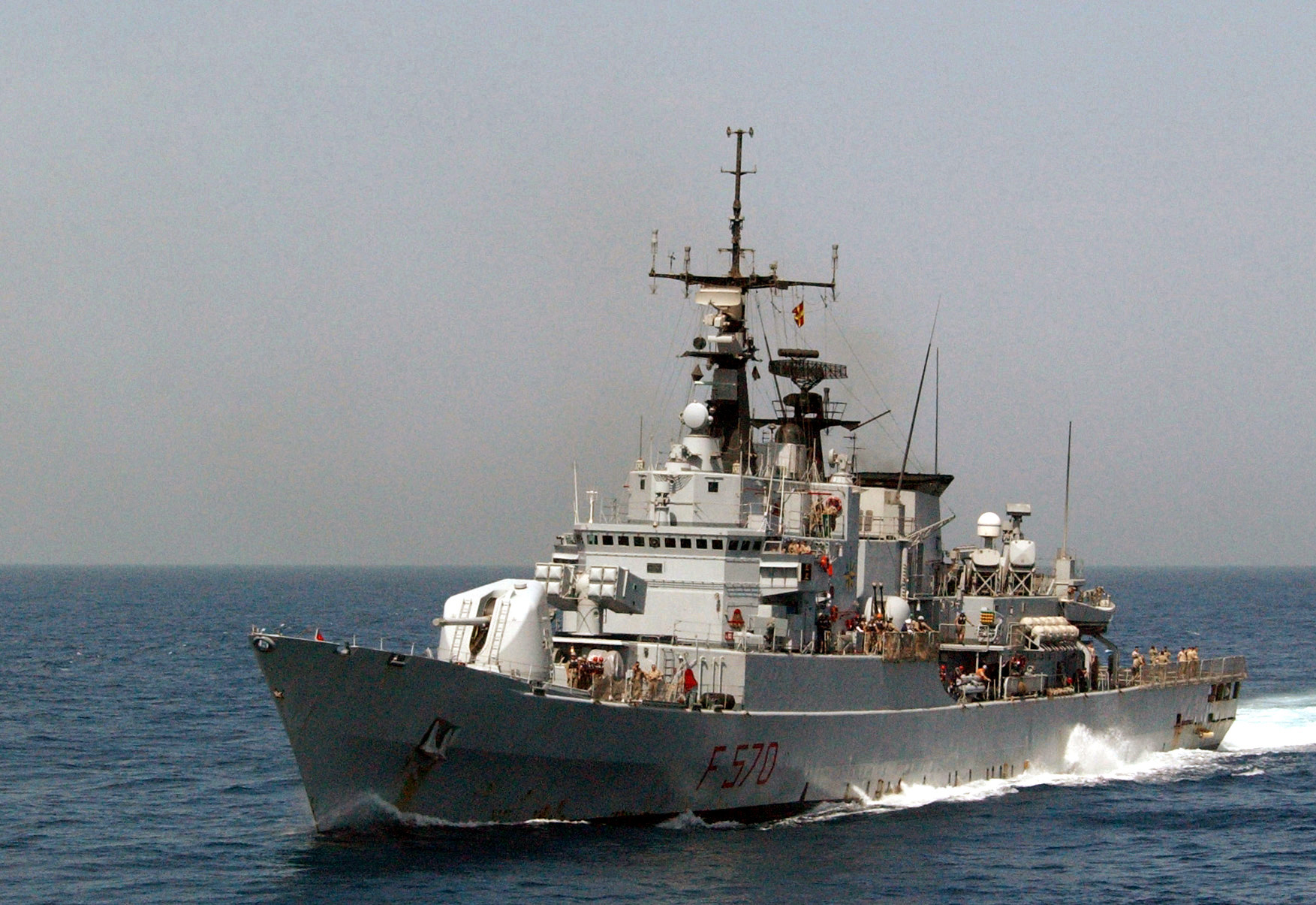 Port bow view of the Italian Navy Frigate, Marina Militare (MM) MAESTRALE (F 570), underway at high-speed, during Operation ENDURING FREEDOM